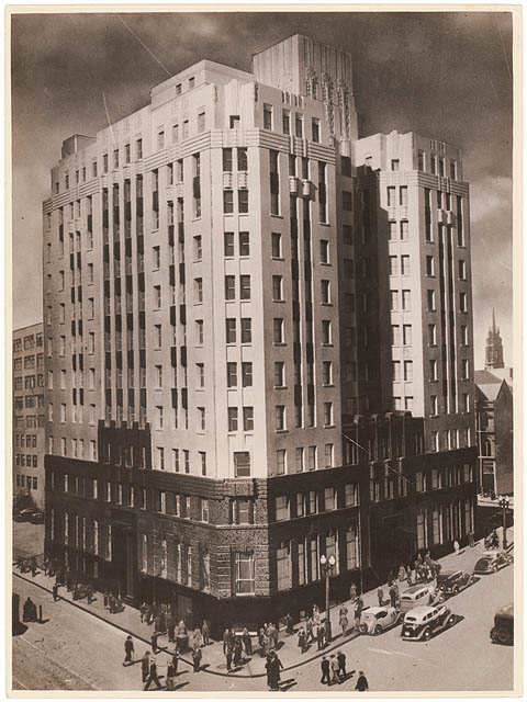 Format: Photograph of the architect's drawing Find out more about this photographic collection: .au/item/itemDetailPaged.aspx?itemID=153399 Search for more great images in the State Library's collections: .au/search/SimpleSearch.aspx From the collection of the State Library of New South Wales